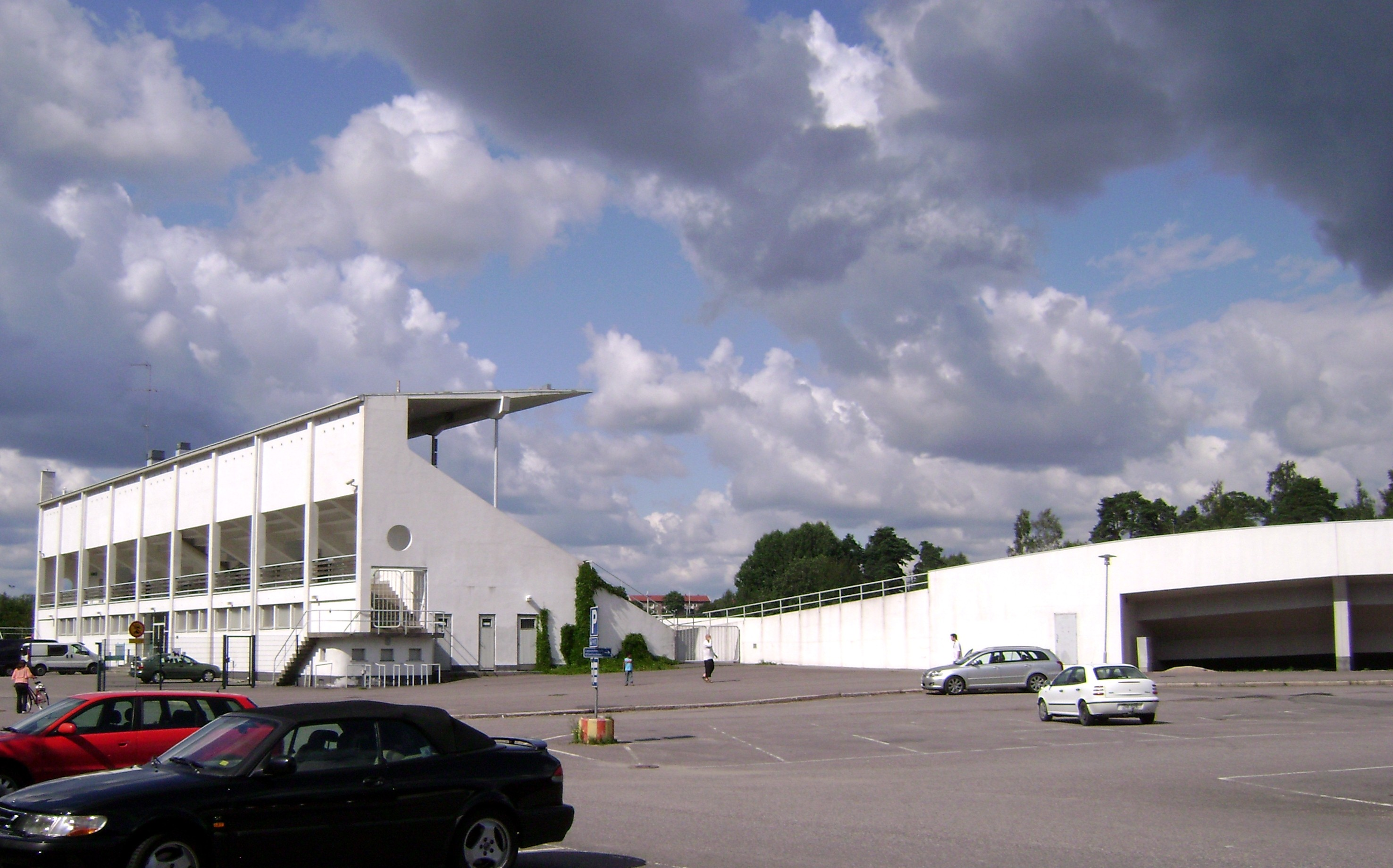 Helsinki Velodrome